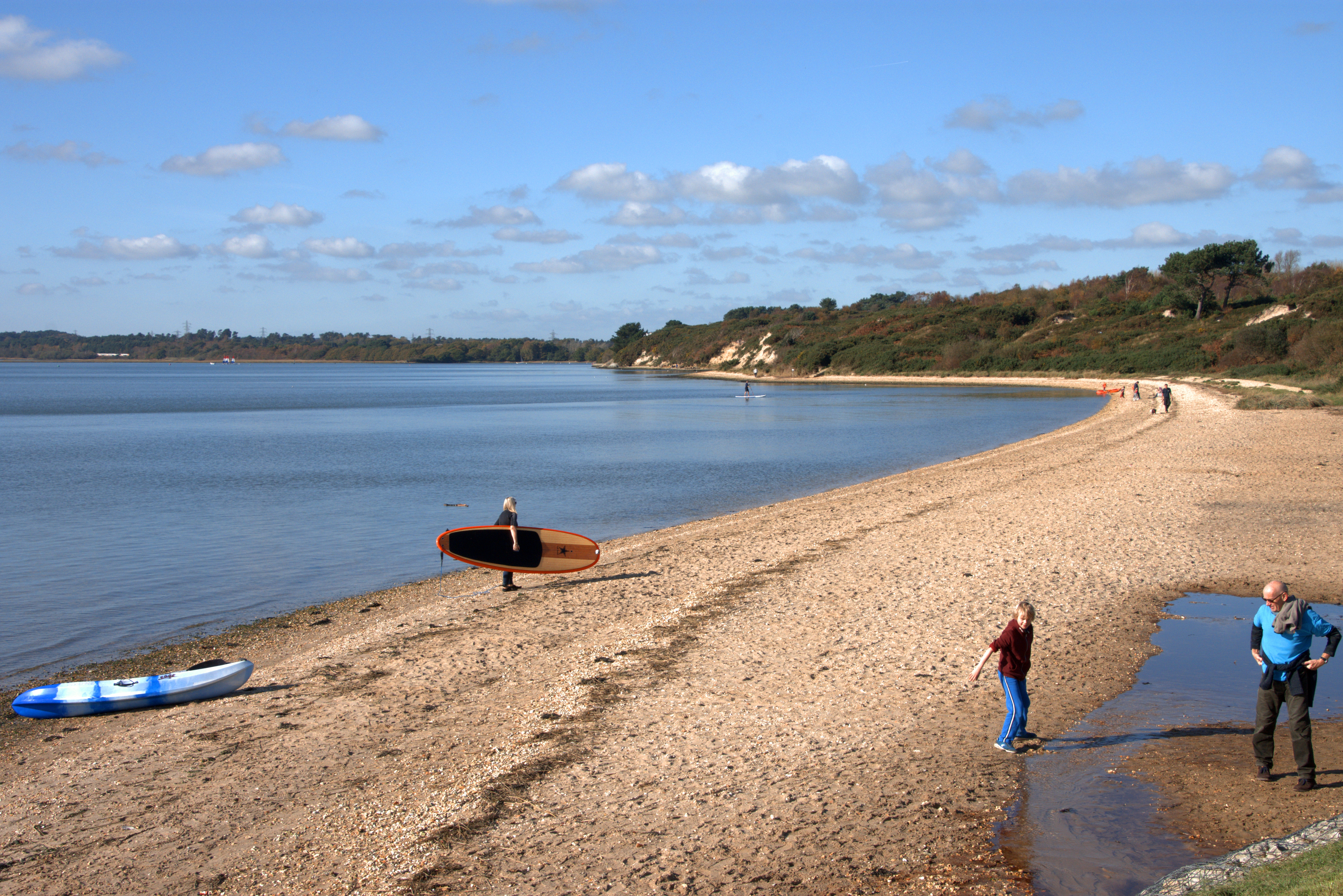 A view of Hamworthy beach by Poole bay, Dorset